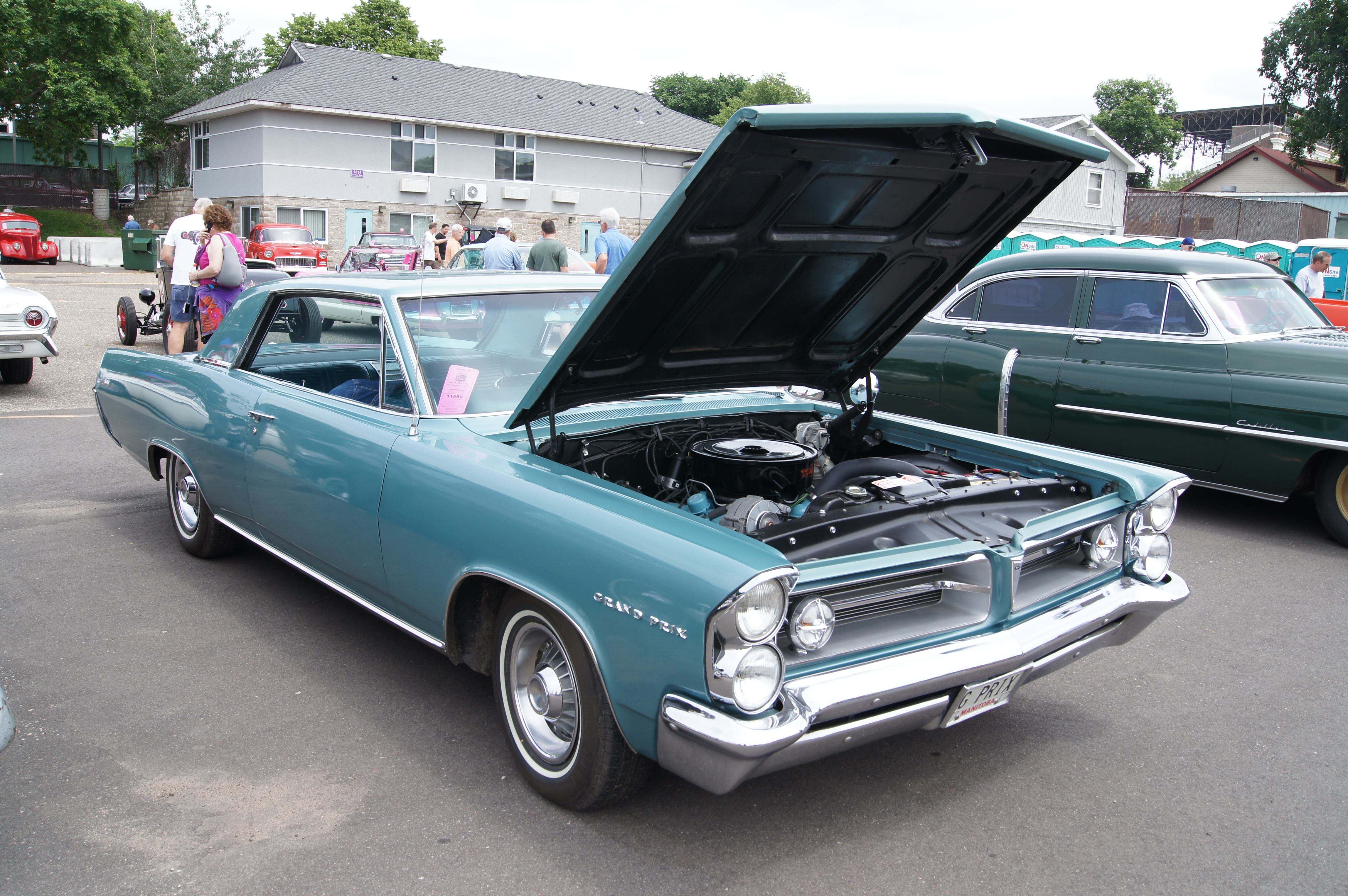 MSRA “BACK TO THE 50′s” 40th ANNIVERSARY June 21-23, 2013 State Fairgrounds St. Paul Minnesota More Car Pictures